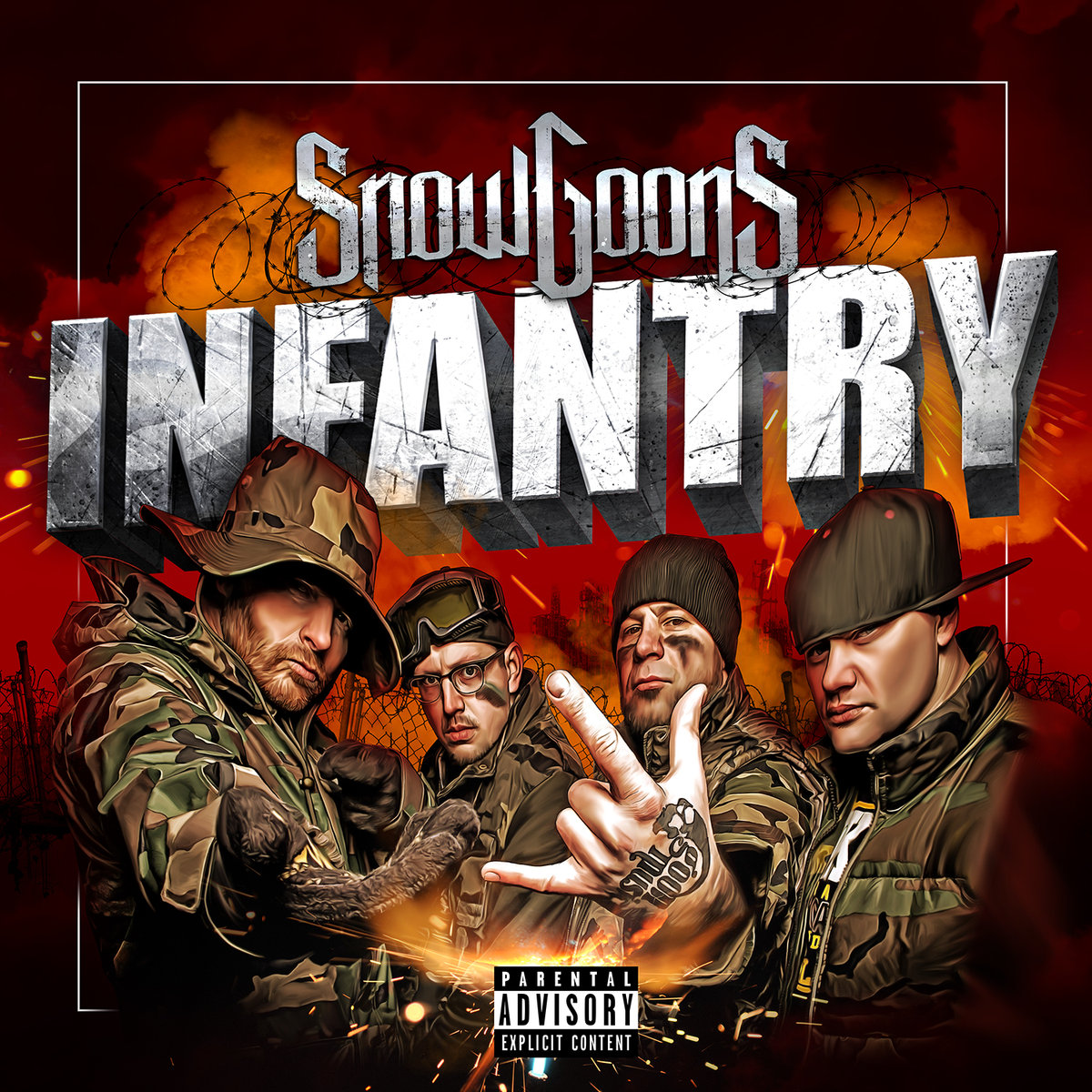 Cover des Albums "Snowgoons Infantry"